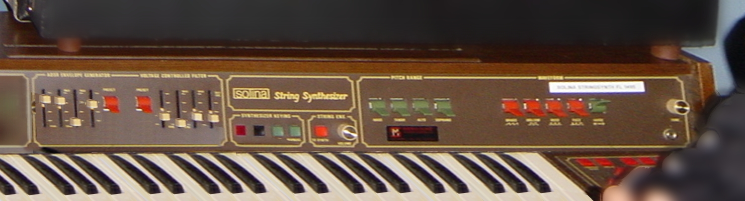 Solina String Synthesizer (without ARP logo) It is a hybrid model which combined both the Solina String Ensemble and the ARP Explorer I monophonic synthesizer.